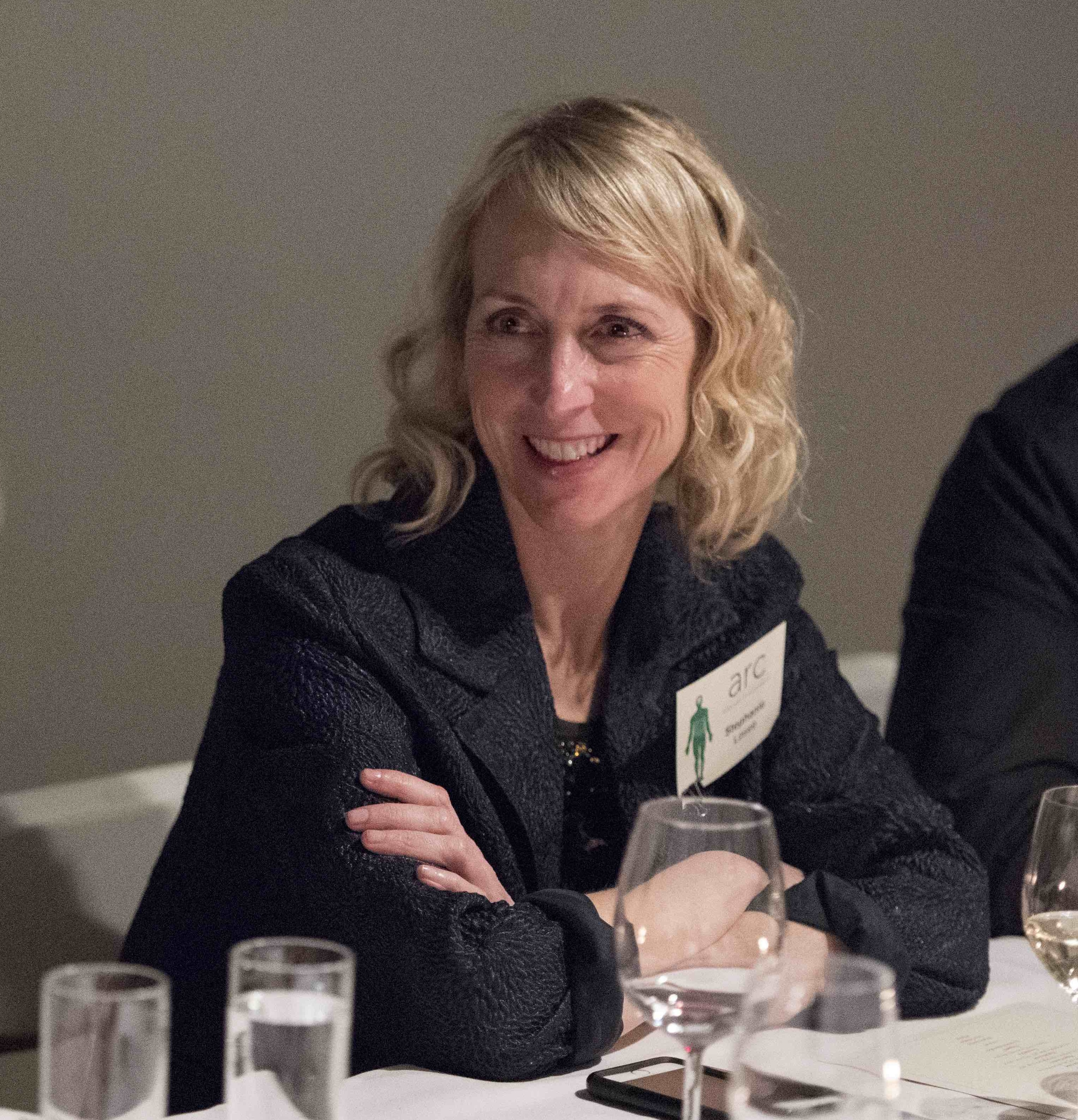 Stephanie Losee at Arc Fusion Event